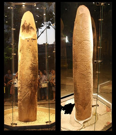 The tallest statue-menhir of all Europe, discovered in the site of Pla de les Pruneres (Mollet, Catalonia)